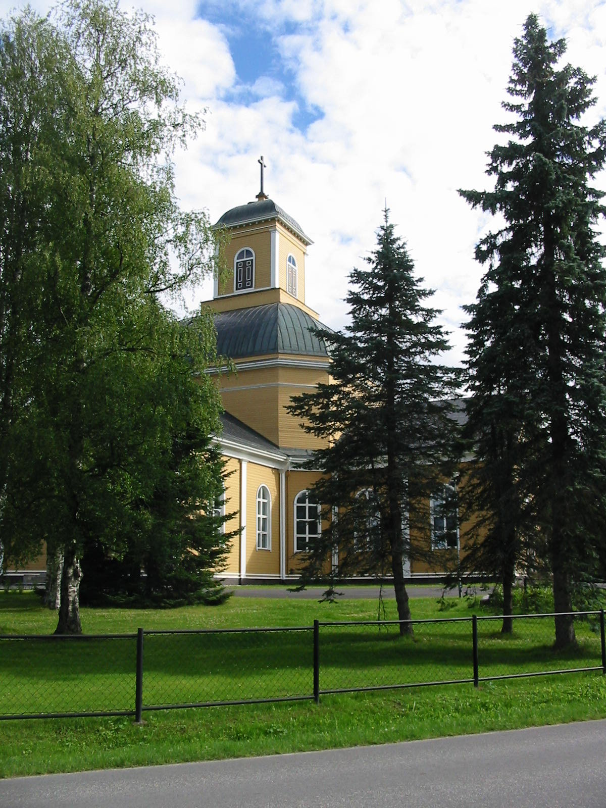 Kuhmo church, Kuhmo, Finland.